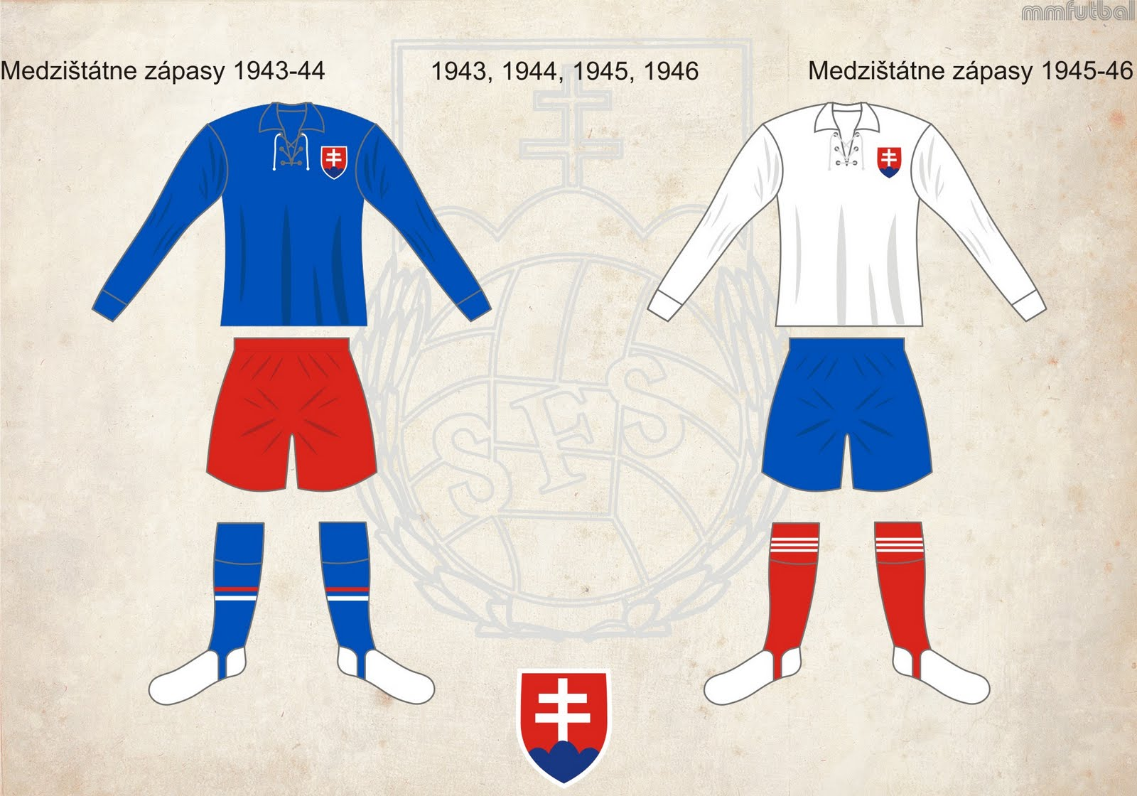 Former Slovakia national football team kits